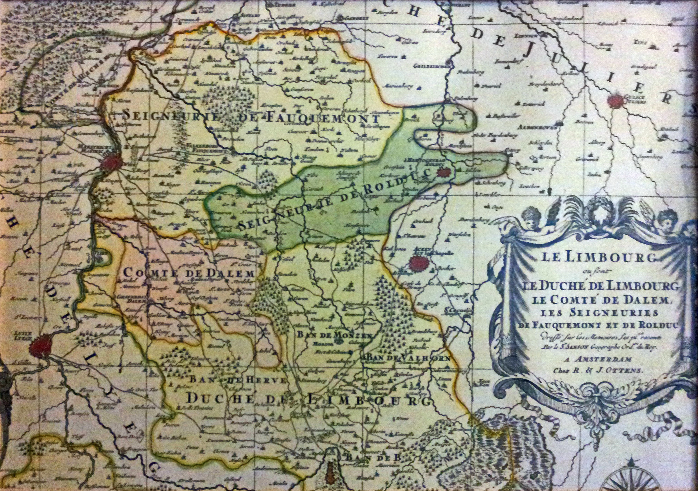 18th-century map of the Meuse region around Maastricht, Liège and Aachen with the duchy of Limburg, the county of Dalhem and the lands of Valkenburg and Herzogenrath (Rolduc). Map published around 1740 in the Atlas Major by Reinier en Josua Ottens in Amsterdam